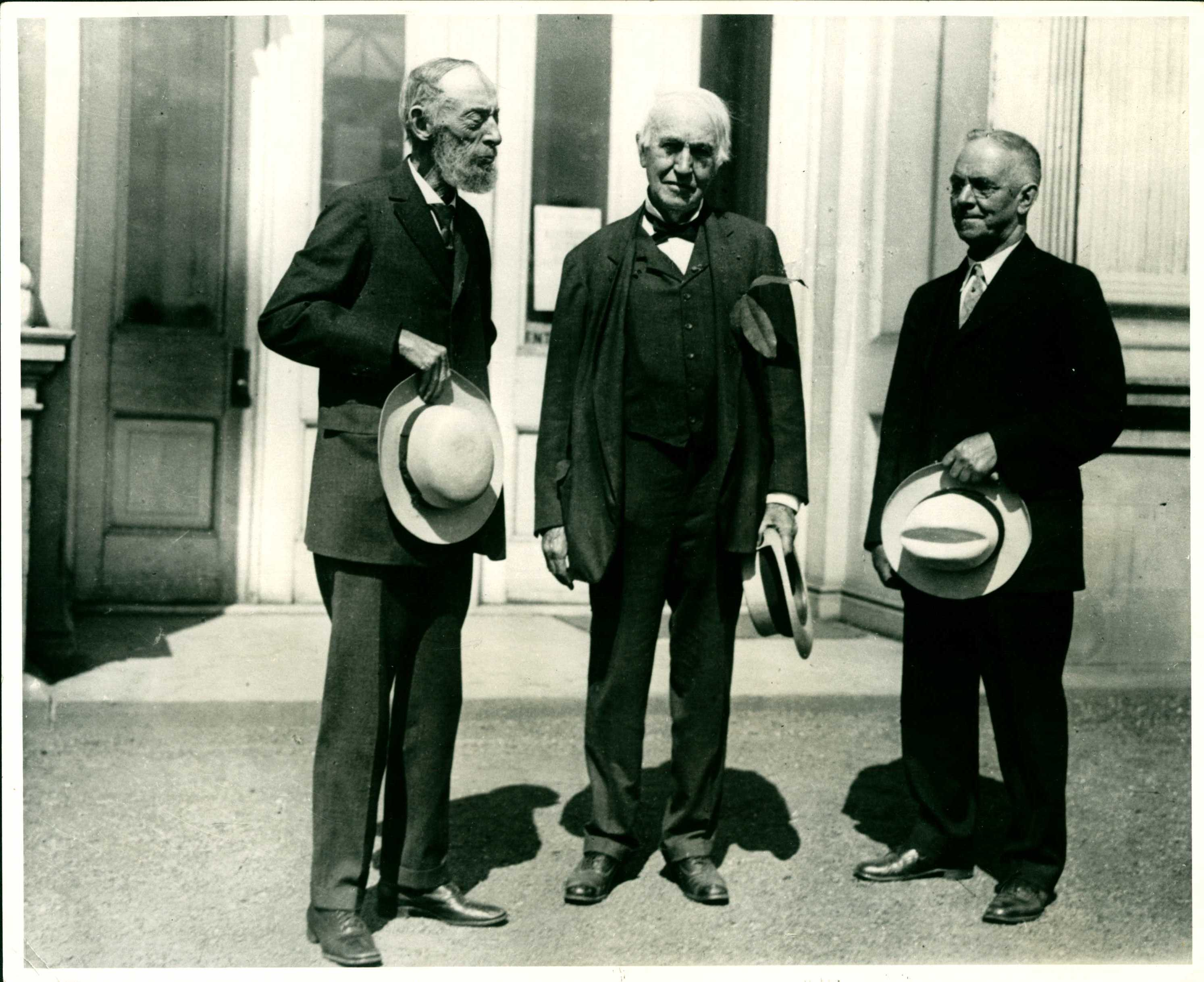 Nathaniel L. Britton, Thomas Edison and Marshall Avery Howe at the New York Botanical Gardens; July 1927